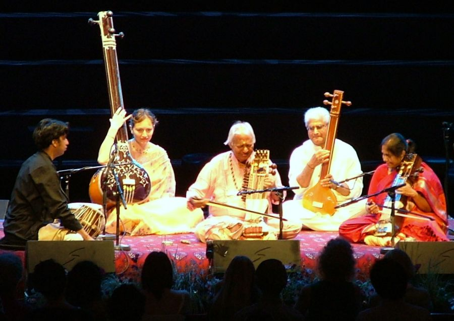 Ram Narayan and his daughter Aruna Narayan (right, in red) play in the Royal Albert Hall for Indian Voices Day for BBC's The Proms